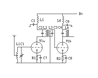 Radio Input Stage